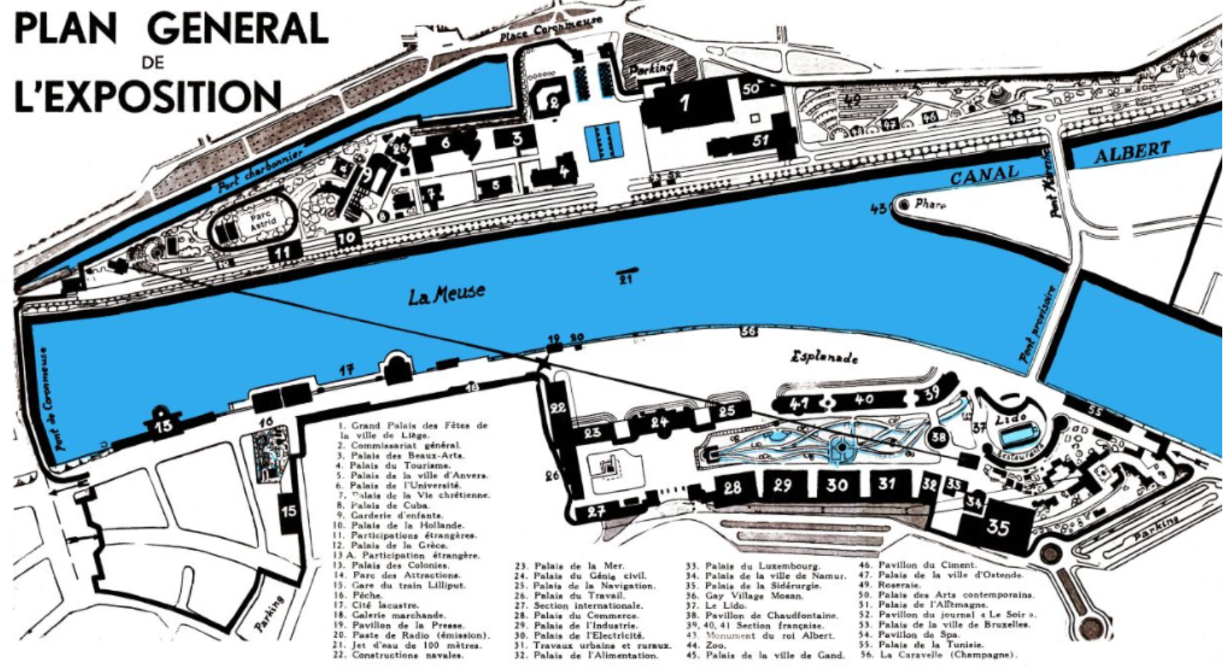 Plan general de l'EXPOSITION INTERNATIONALE DE L'EAU A LIEGE en 1939